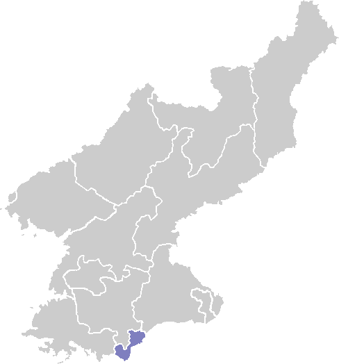 area map of Kaesong Industrial Region